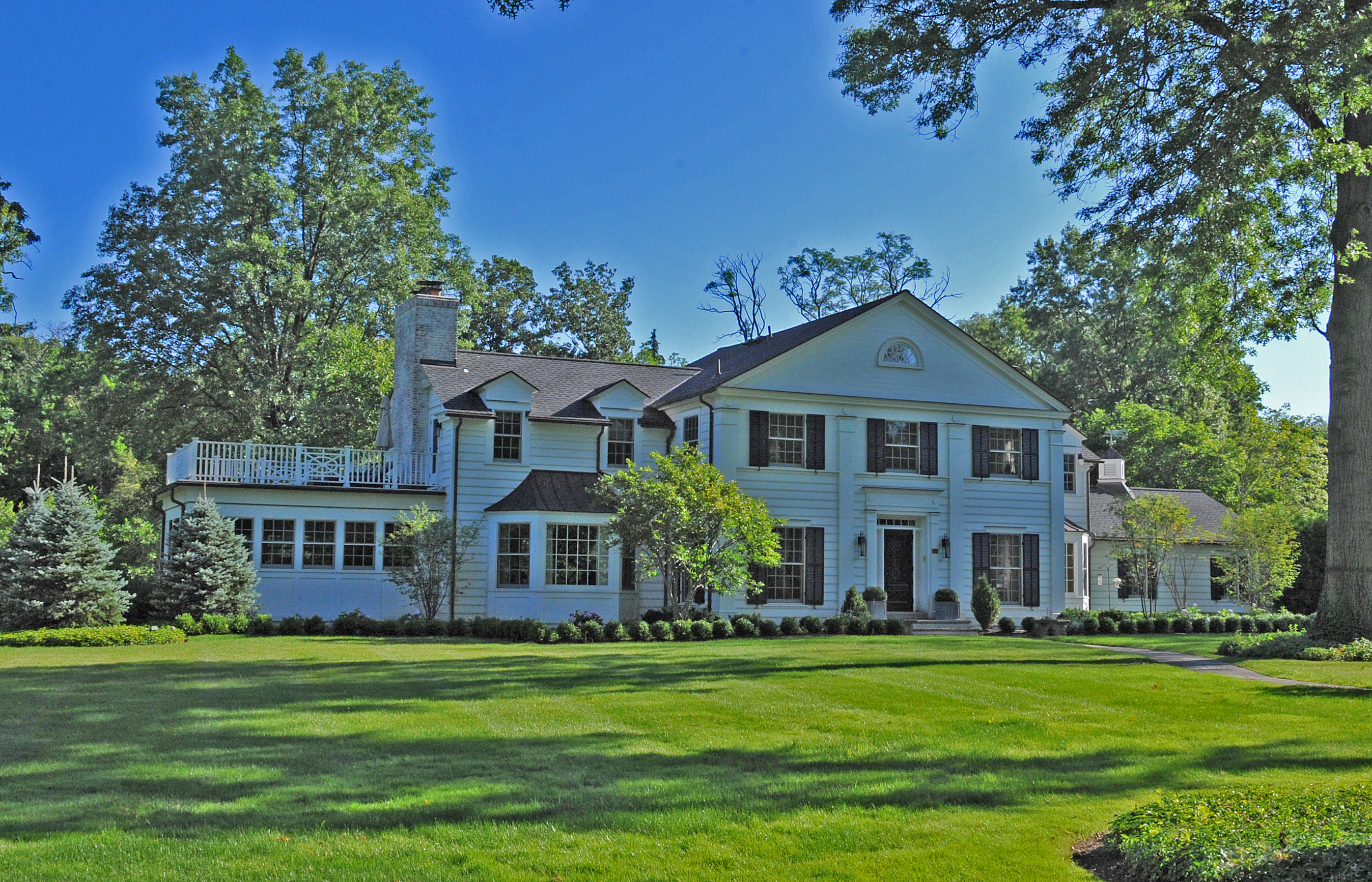 CIRCA 1950 COLONIAL REVIVAL